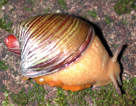 Photo of Amphibulima patula dominicensis.